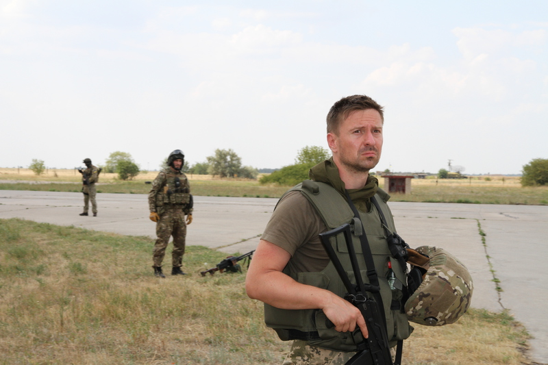 александр данилюк донбасс